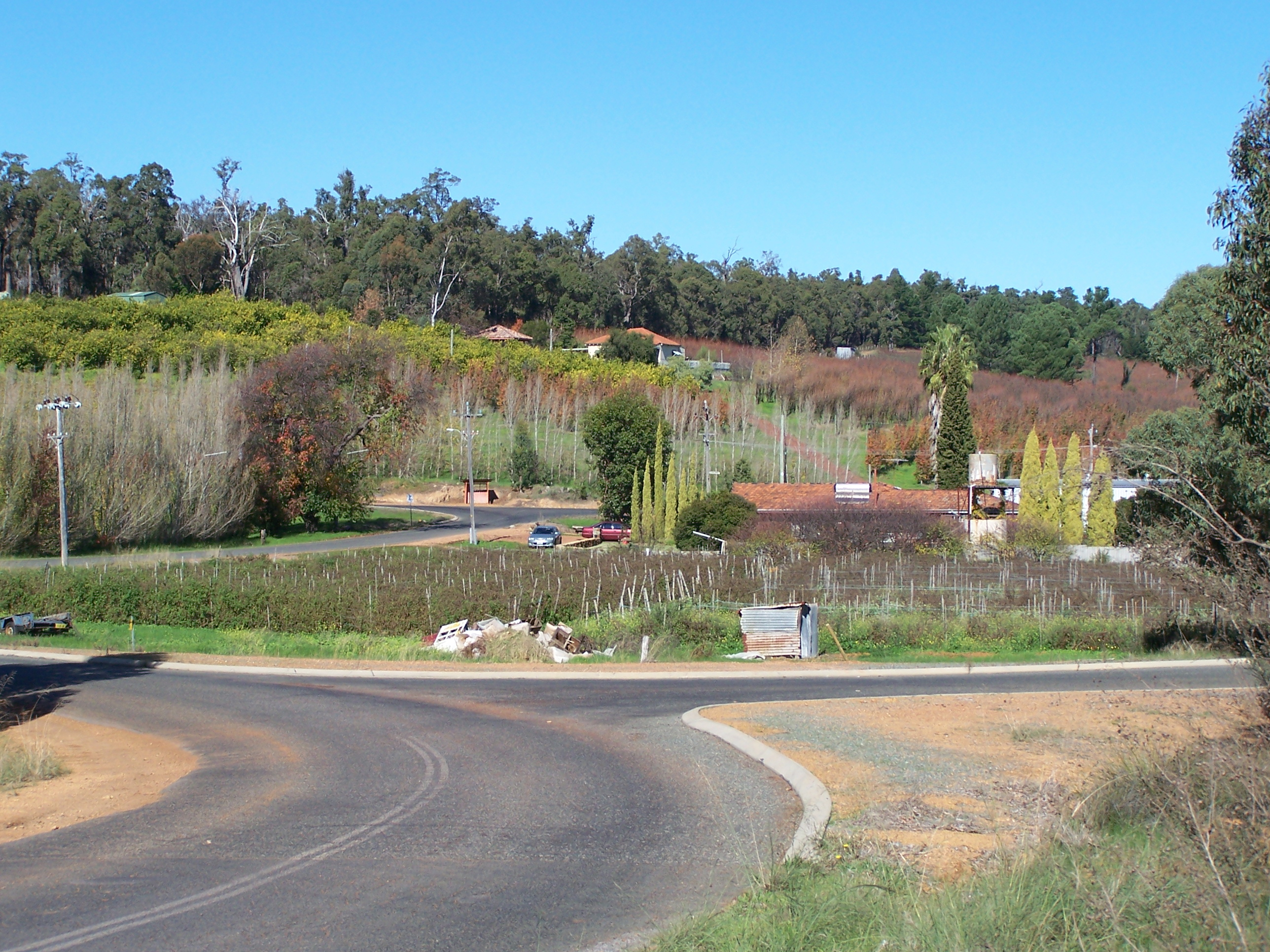 Pickering Brook orchards during Autumn 2007